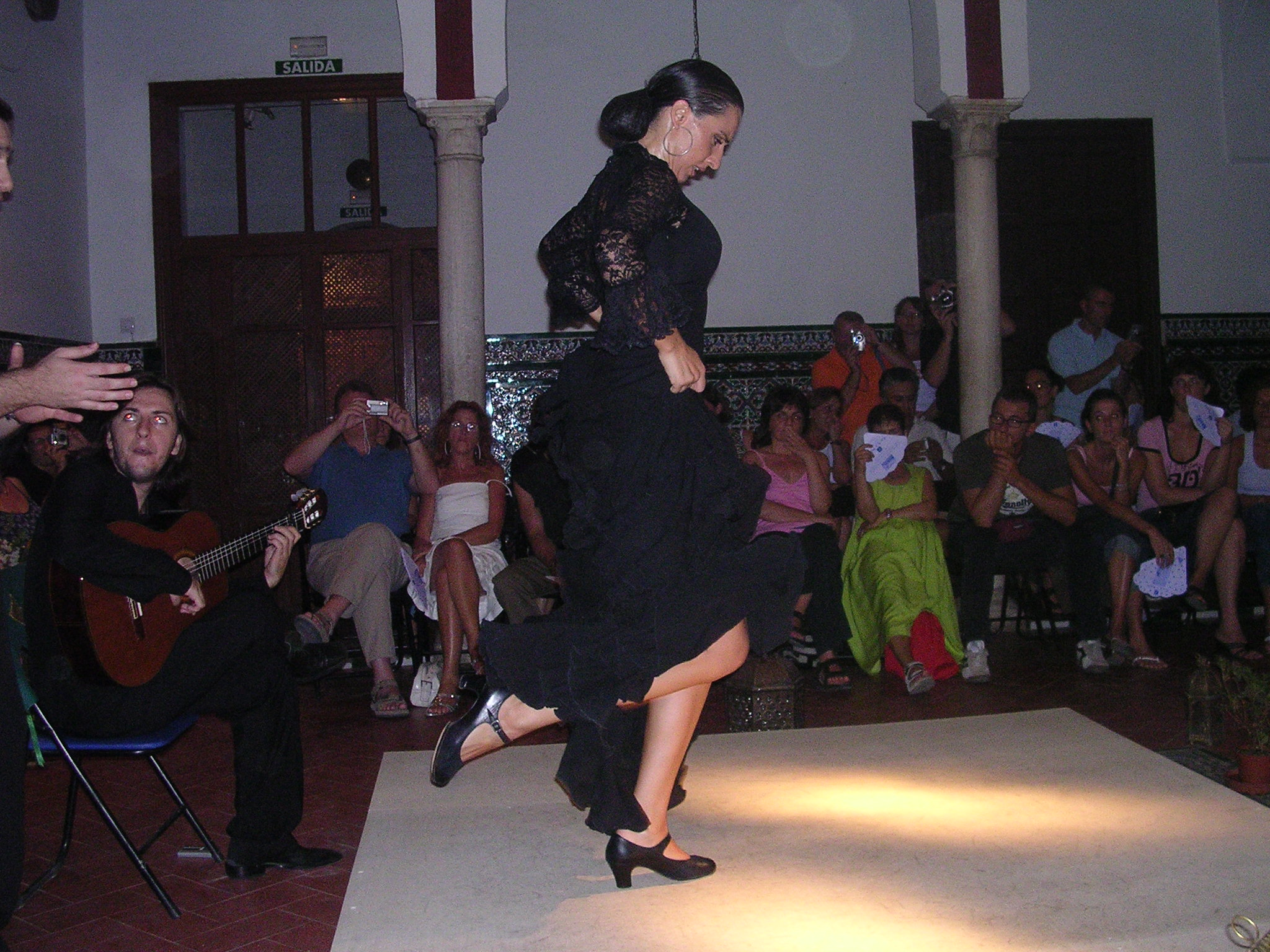 Seville, Spain